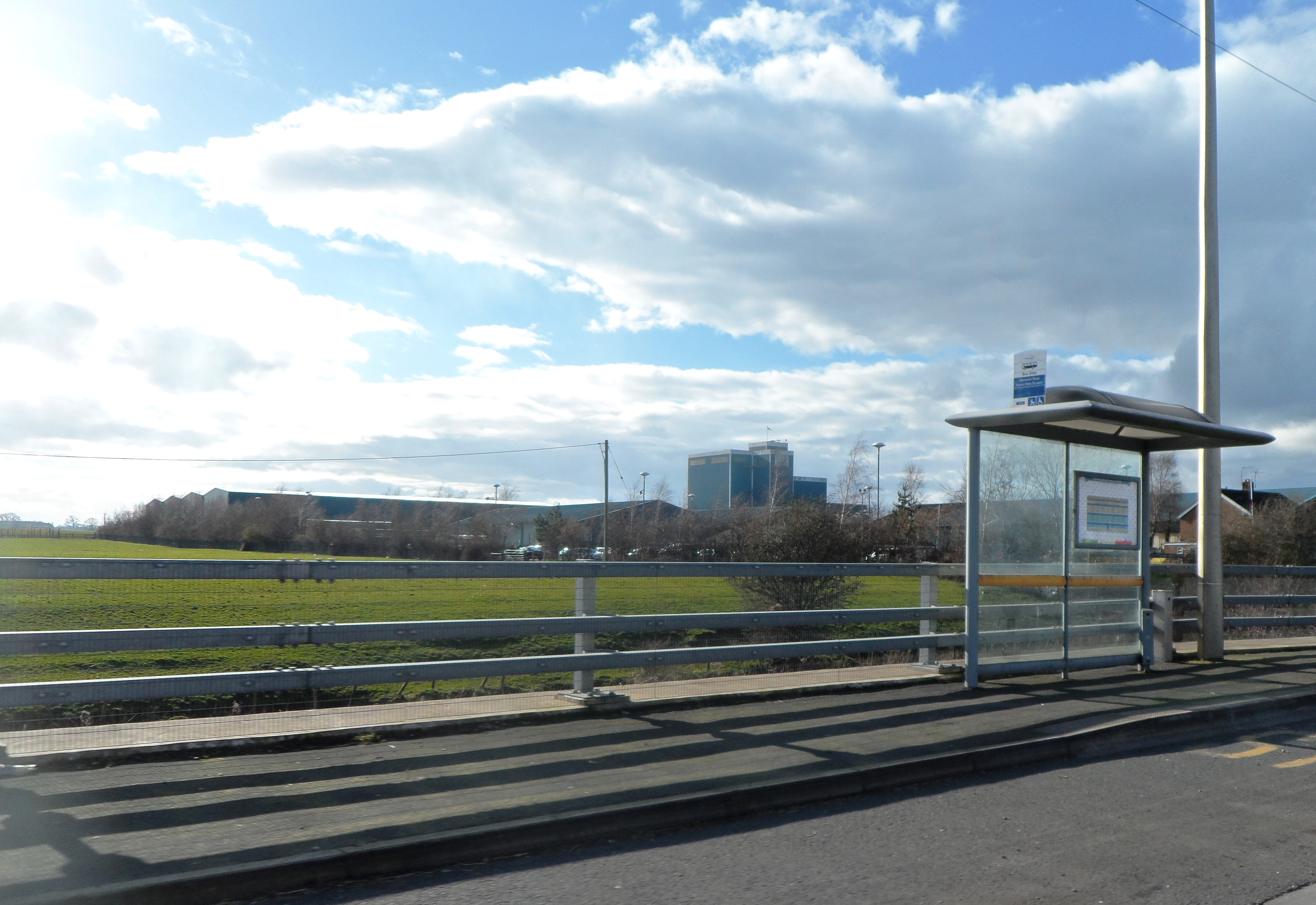 Bus Stop on the A51 near Wardle Industrial Estate